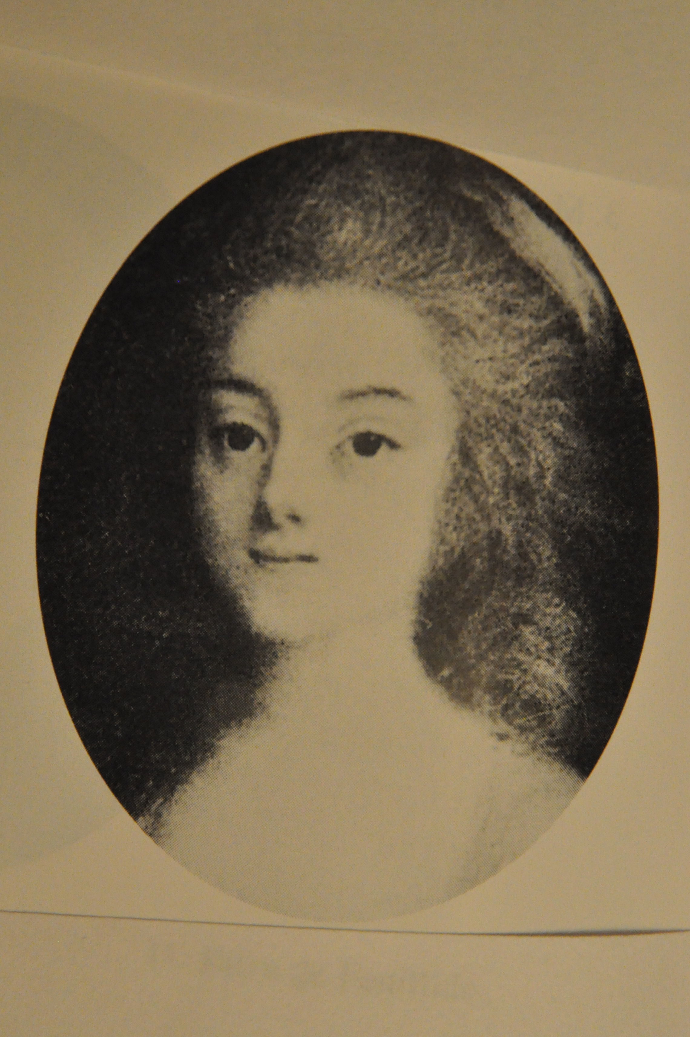 Portrait of Eliza Hancock (1761-1813), one of Jane Austen's cousins, aka "Comtesse de Feuillide".